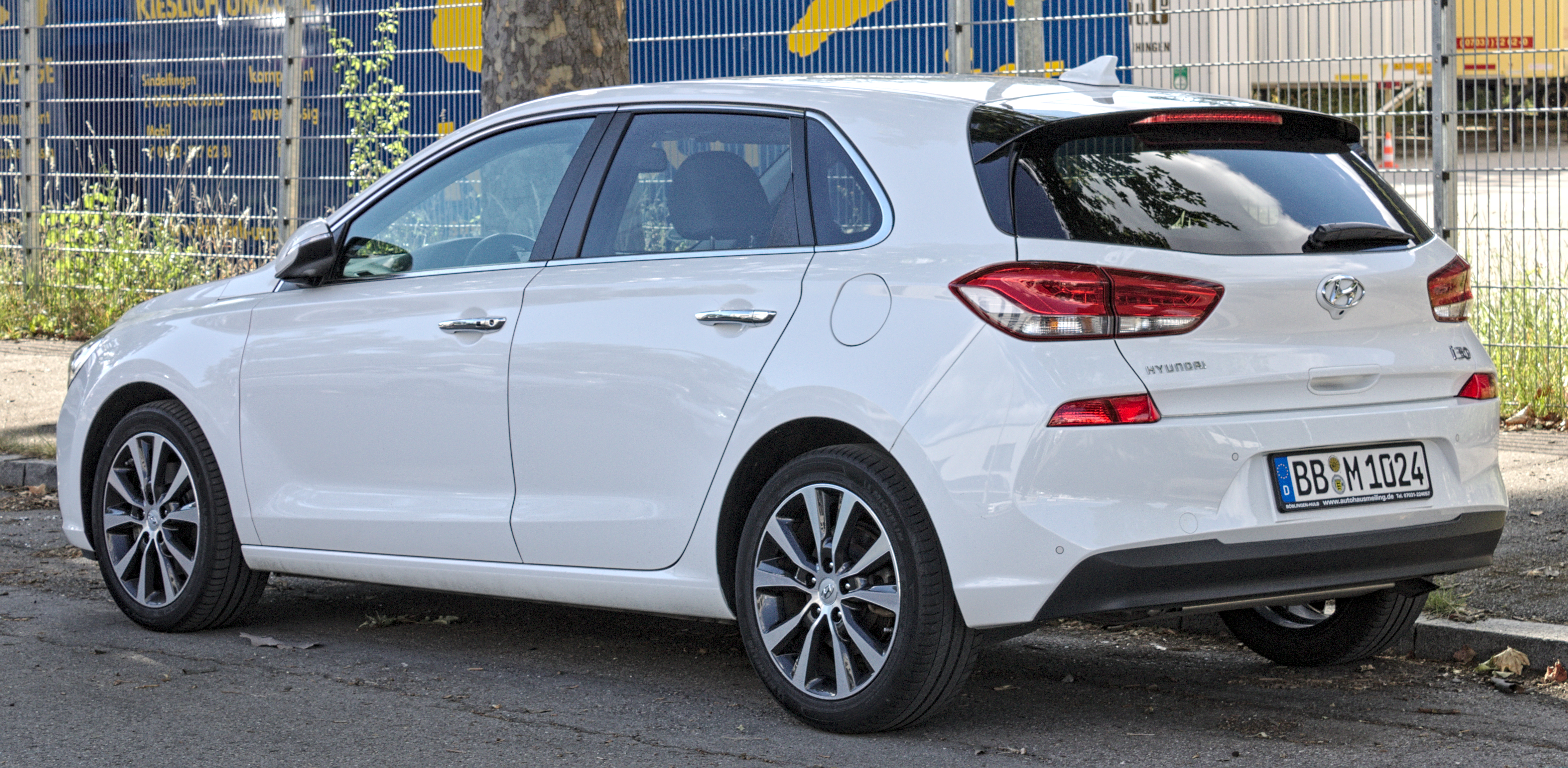 Hyundai_i30_(PD) in Böblingen